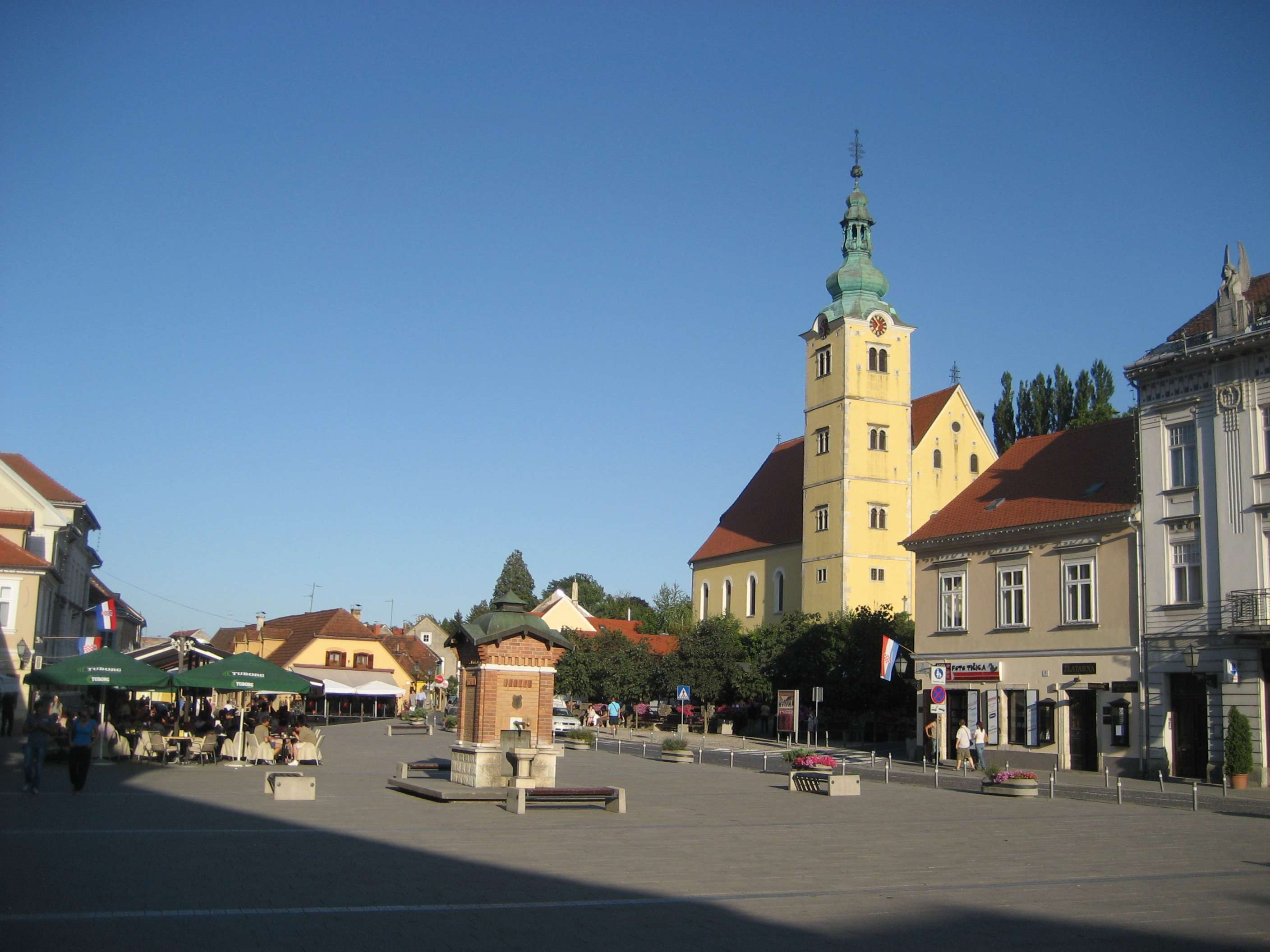 Samobor, Croatia